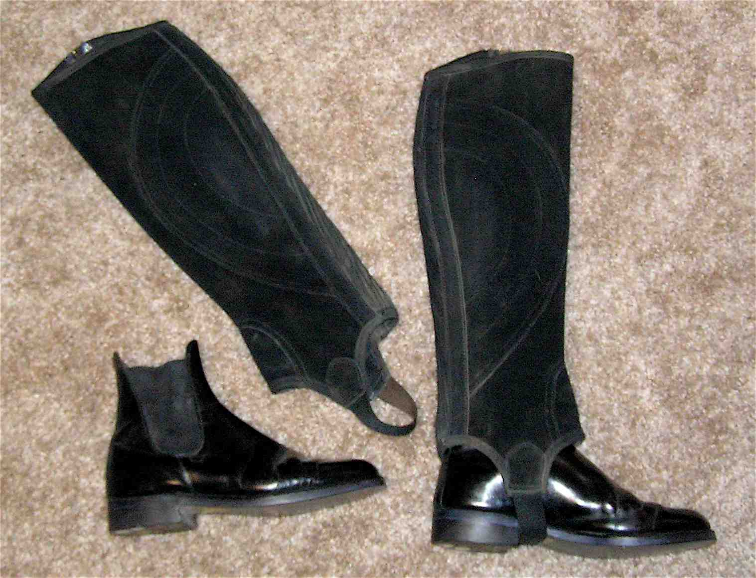 A pair of half-chaps, showing how they fit over a paddock boot